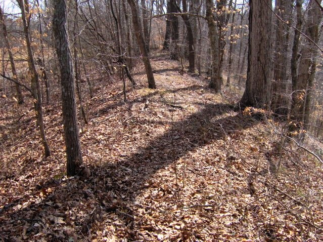 Looking across the south walls of the Old Stone Fort near Manchester, Tennessee, in the Southeastern United States. The structure's interior and borrow ditch are on the left. On the right, the ridge slopes downward toward "the moat" (a dry riverbed). The walls originally had an inner and outer layer composed of rocks and slabs with earthen fill in between. Over the centuries, the fill has spilled over onto the walls, giving them a mound-like appearance. The Old Stone Fort was built nearly 2000 years ago by a local Middle Woodland culture.